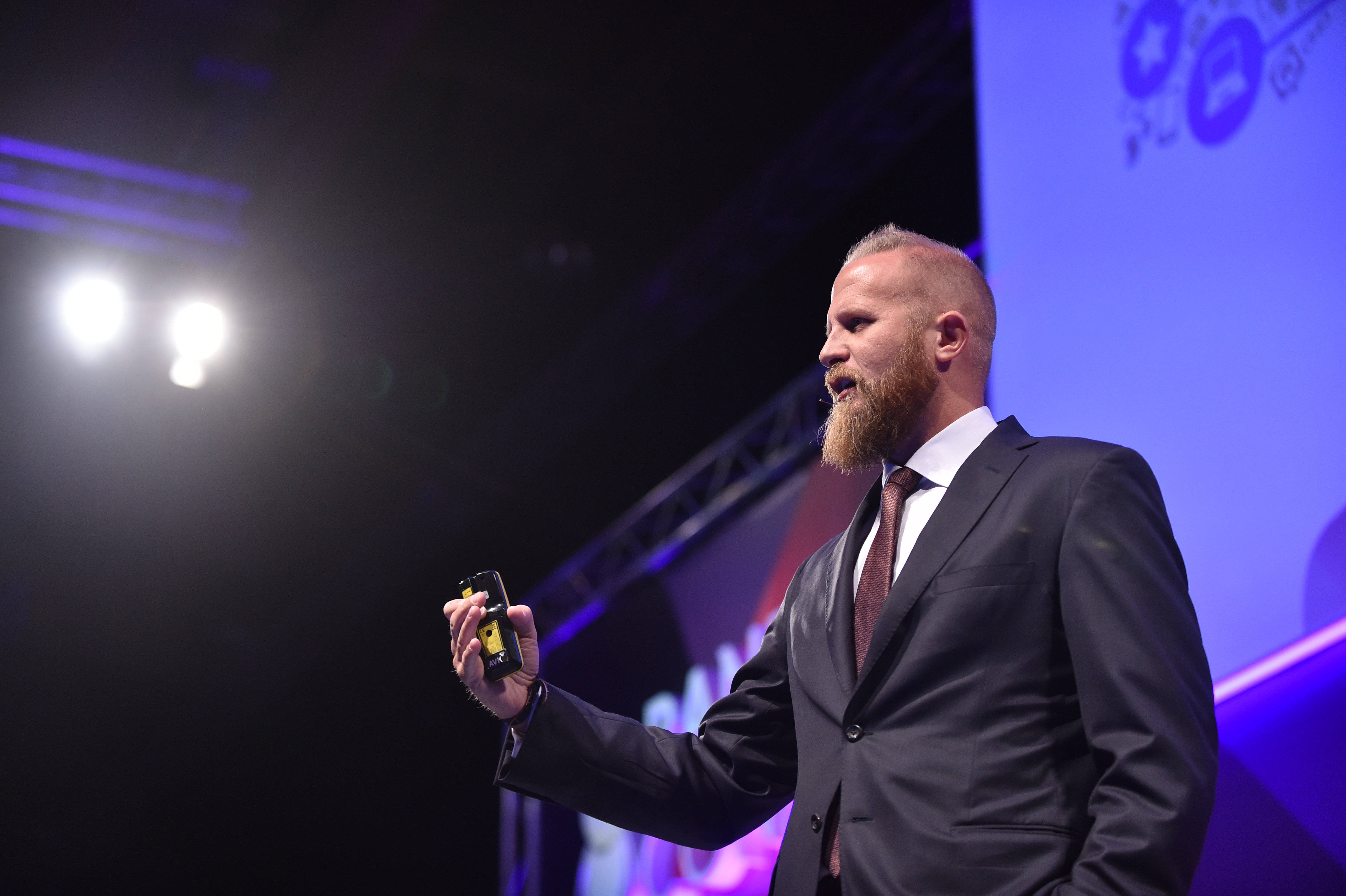 9 November 2017; Brad Parscale, Digital Director, Donald J. Trump Presidential Campaign, on the PandaConf Stage during day three of Web Summit 2017 at Altice Arena in Lisbon. Photo by David Fitzgerald/Web Summit via Sportsfile